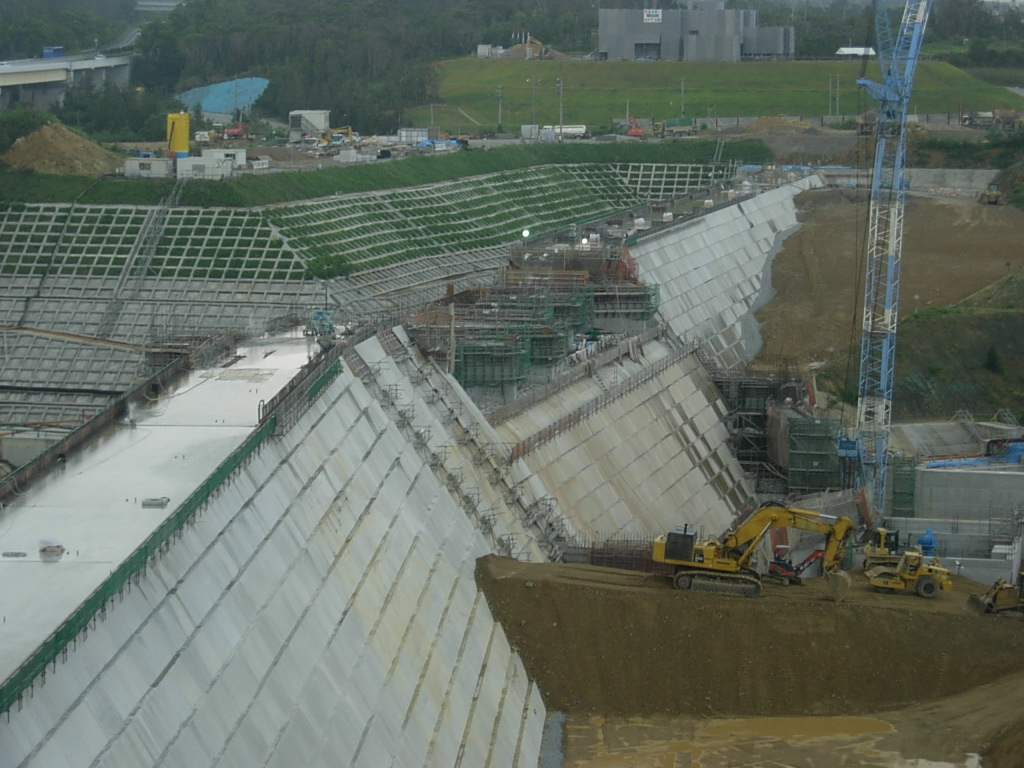 Downstream side of Okukubi Dam in July 2011. The dam's spillway is still under construction.